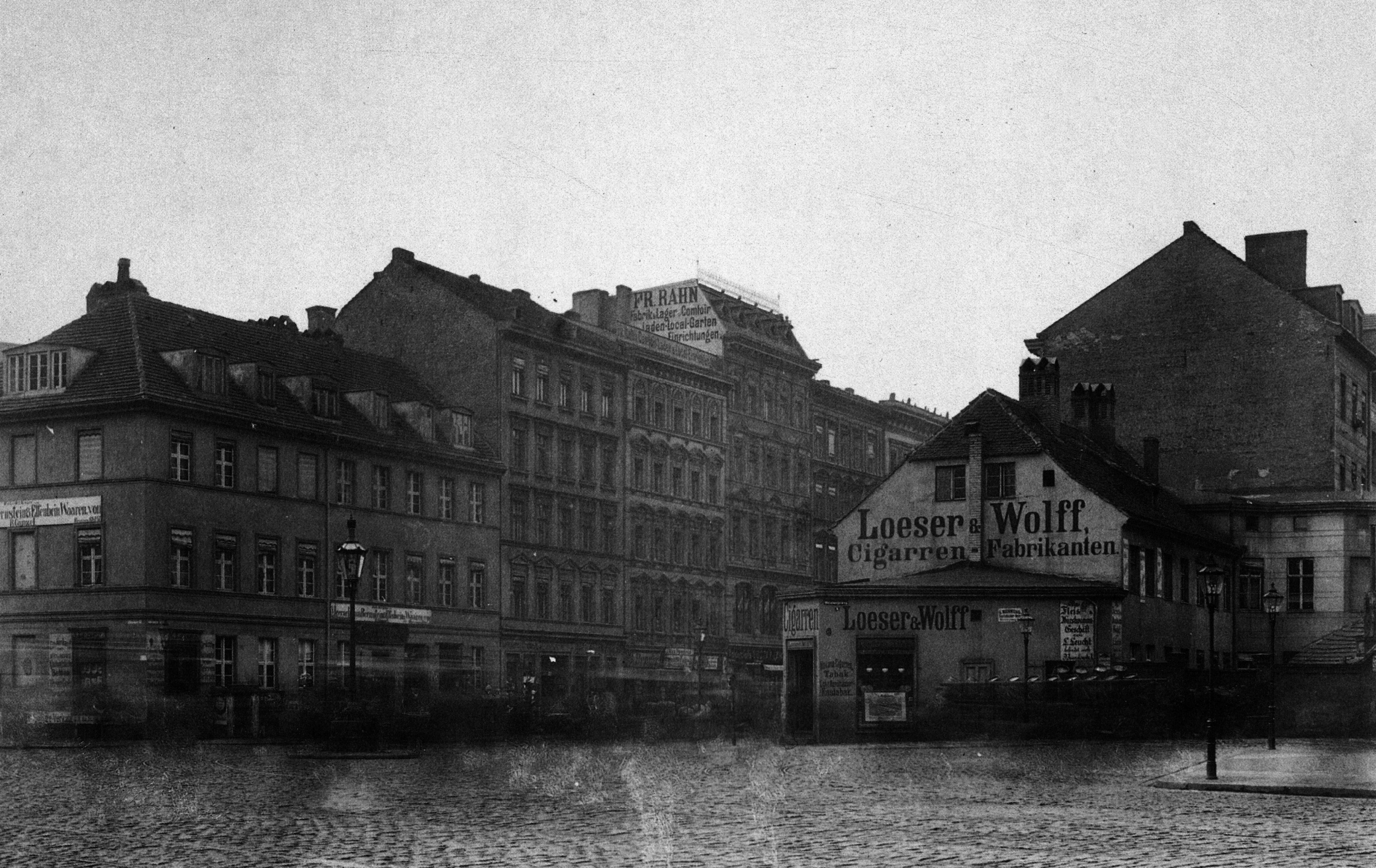 Platz am Rosenthaler Thor (“square at Rosenthal gate”, now Rosenthaler Platz) in Spandauer Vorstadt, Berlin.